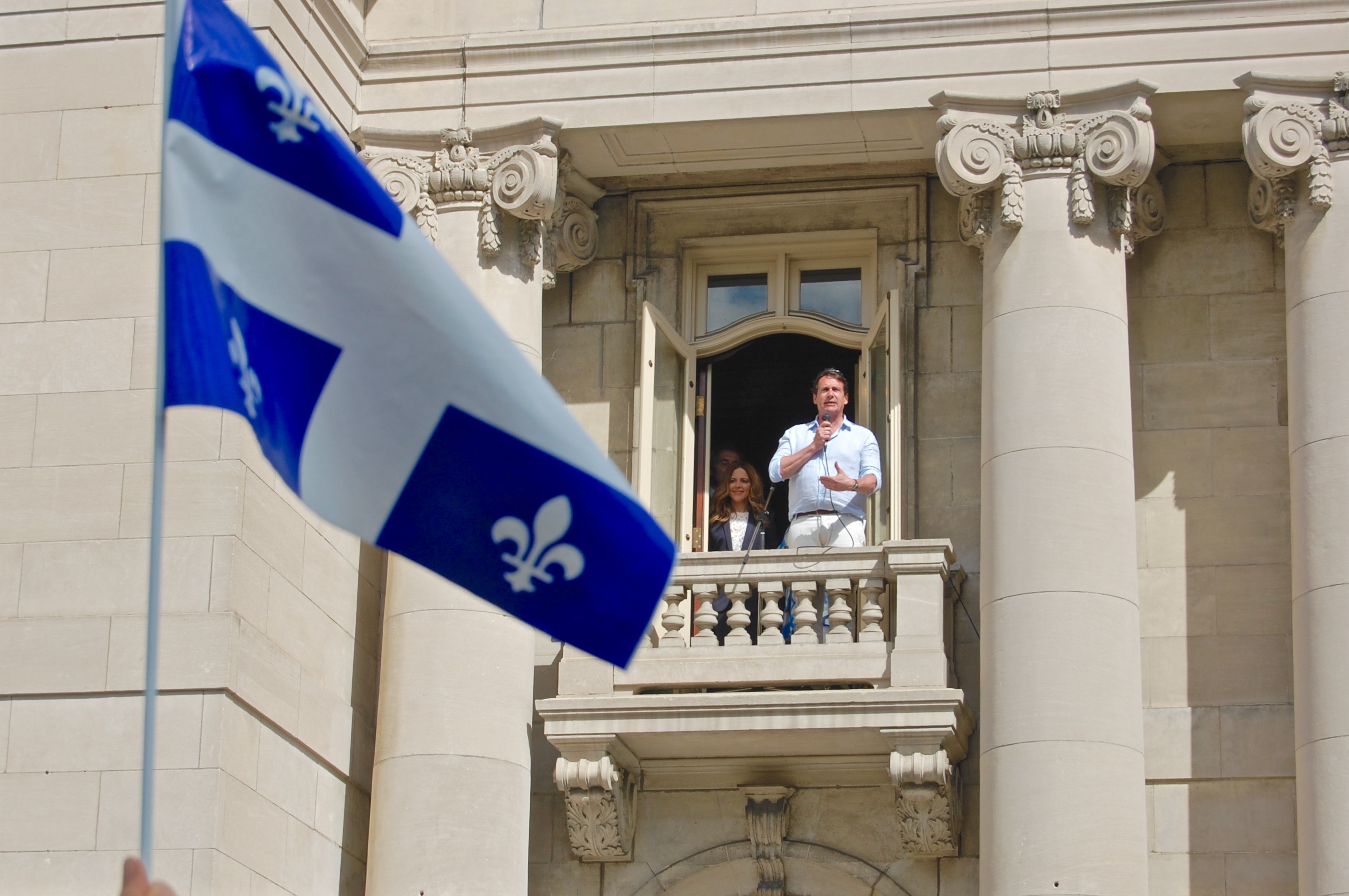 Pierre Karl Péladeau, chief of the Parti Québécois, National Holiday or Saint-Jean-Baptiste Day (2015-06-15), Château Dufresne, 4040 Sherbrooke Street East, Montreal, Quebec, Canada.